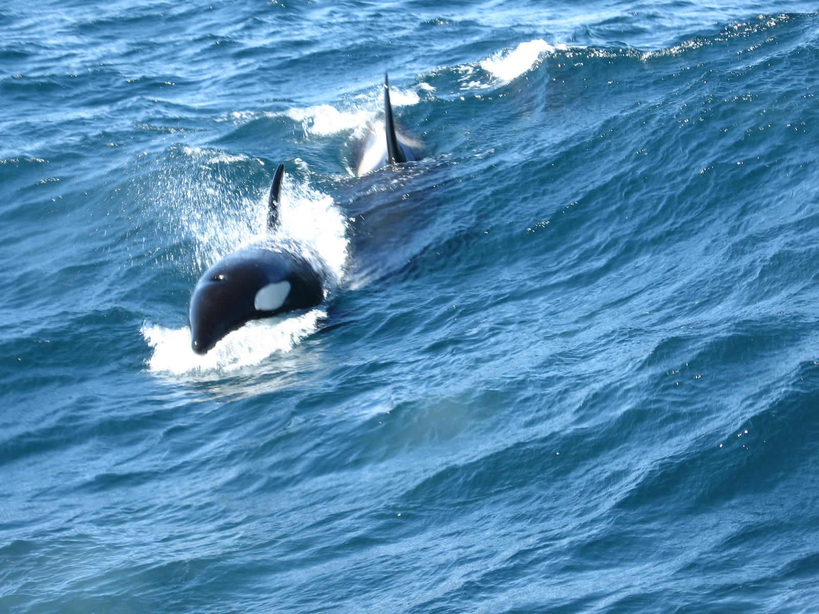 Two Orcinus orca in the Norwegian Sea near Andenes, (Vesterålen, Norway) during a whaltour.